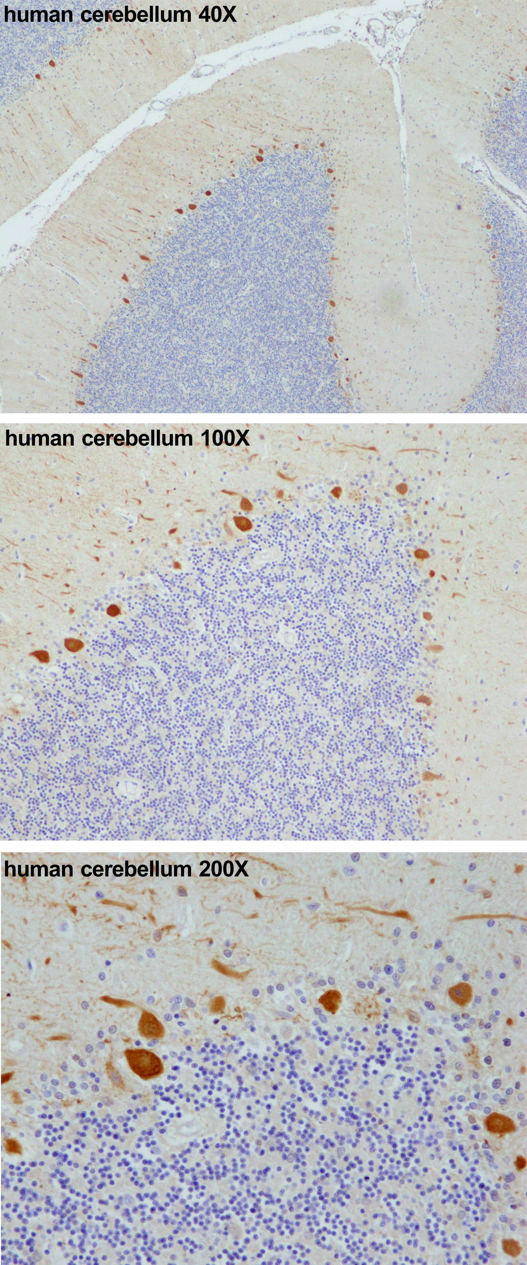 The Purkinje cell protein 4 (PCP4) is markedly immunoreactive in the Purkinje cells of the human cerebellum. From top to bottom 40X, 100X and 200X microscopic magnifications. The immunohistochemistry was performed using a polyclonal rabbit anti-human PCP4 antibody purchased from SIGMA-ALDRICH and used according to the methods published by Felizola SJA et al 2014 Journal of Molecular Endocrinology 52(2):159-67.